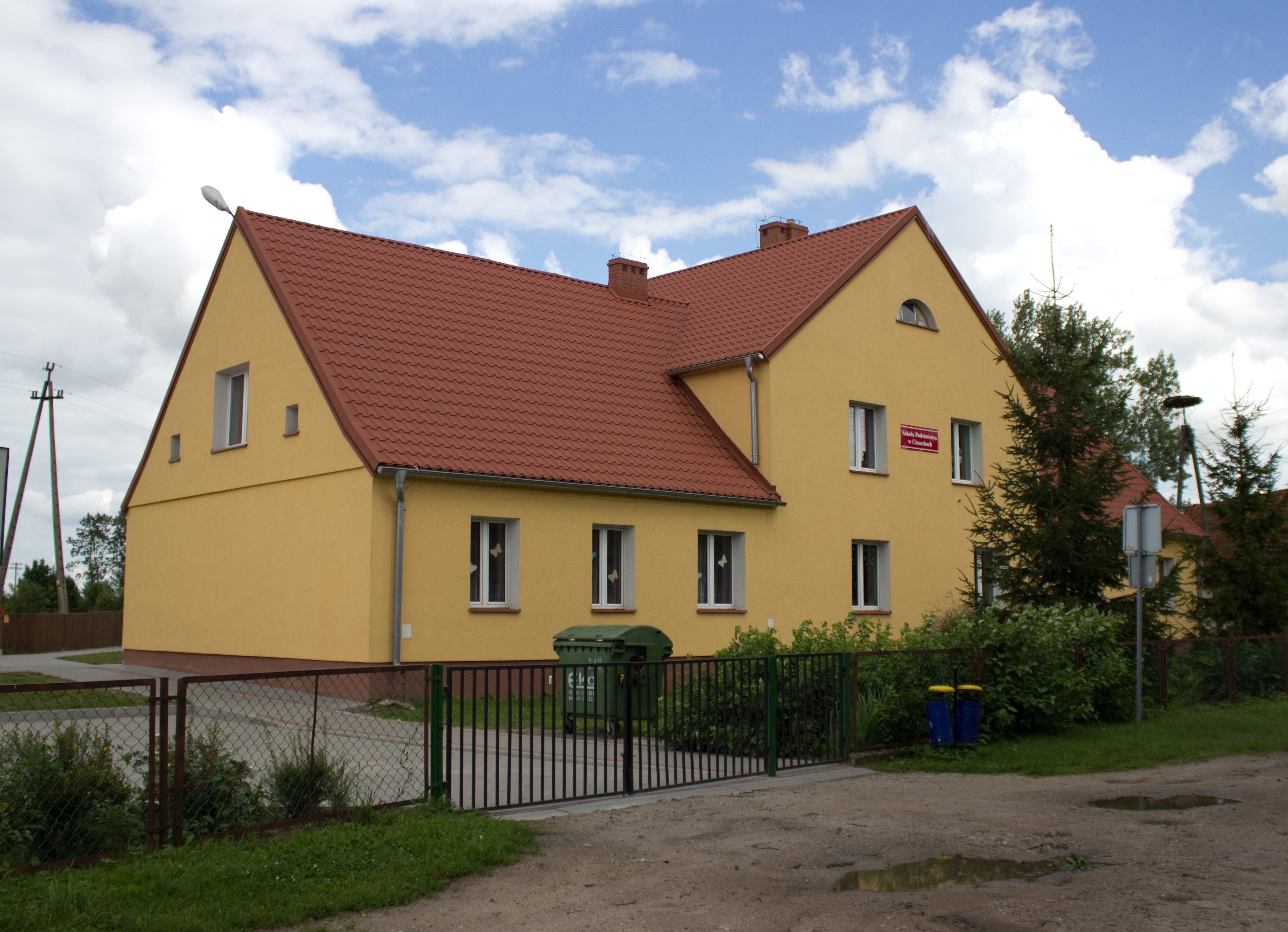 School, Cimochy, gmina Wieliczki, powiat olecki, Warmian-Masurian Voivodeship